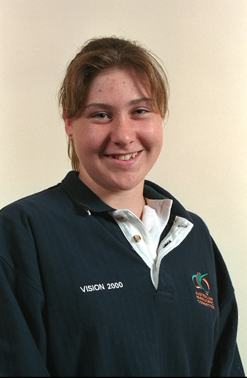 Portrait of Australian swimmer Alicia Aberley, 2000 Australian Paralympic Team athlete